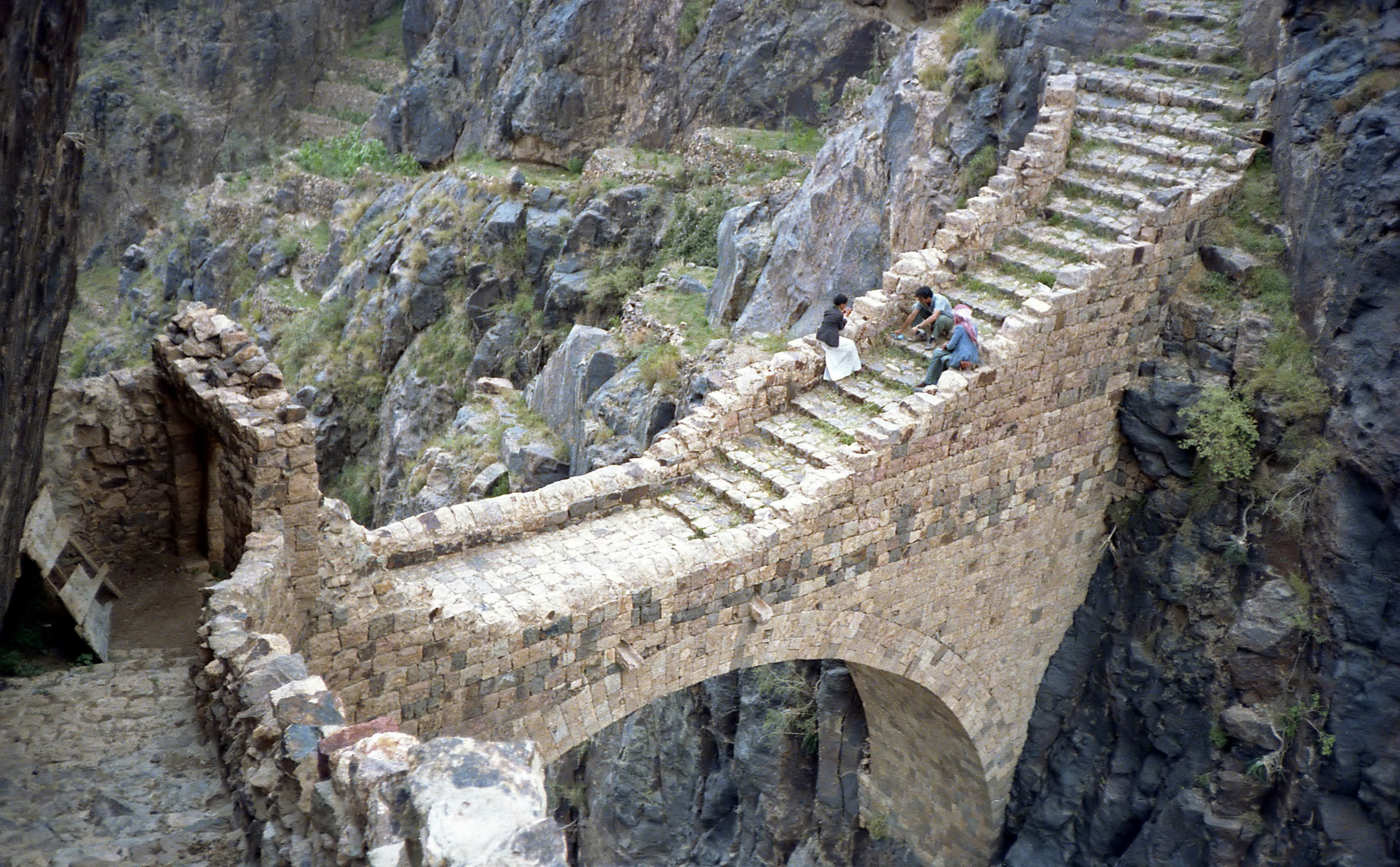 Footbridge in Shaharah, Yemen